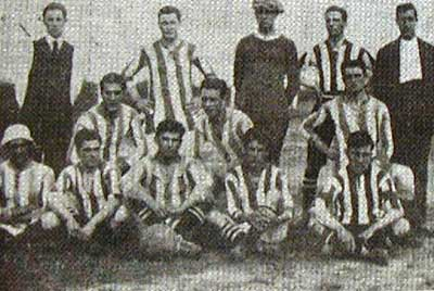 The C.A. Atlanta team while playing in the second division of Argentine football.